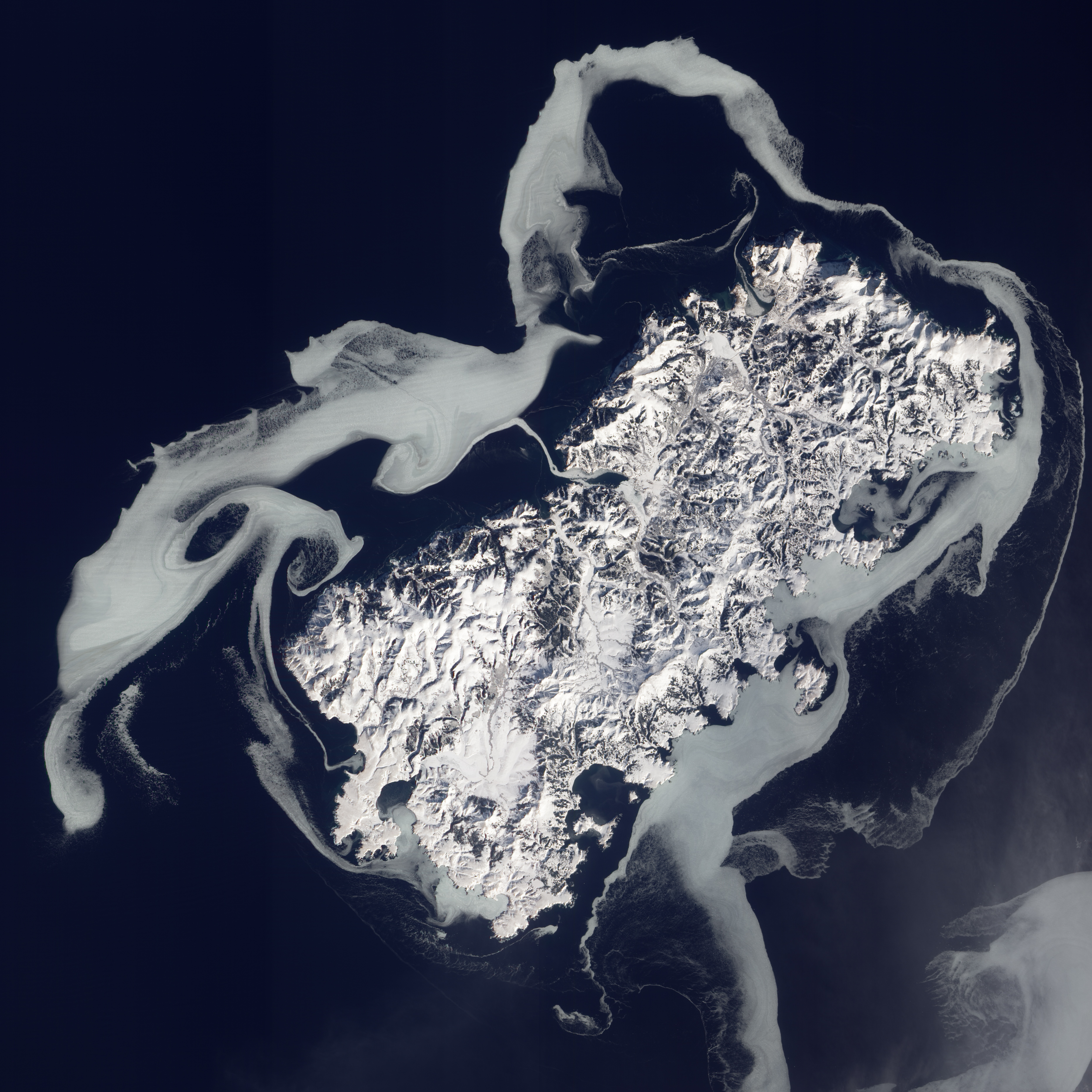 Natural-colour image of Shikotan. The island is surrounded by sea ice—swirling shapes of ghostly blue-gray. The ice in this image may have formed in a matter of several days, and it is prone to moving with currents. North of the western end of Shikotan, eddies have shaped the ice into rough circles. The eddies may result from opposing winds—winds from the north pushing the ice southward, and winds from the south-west pushing the ice toward the north-east. Uneven snow cover exaggerates the island’s rugged appearance. Multiple forces have shaped Shikotan over millions of years. Geologic studies indicate that it has been battered by multiple tsunamis, although wind, rain, and tectonic forces likely play a greater role in shaping the surface. Part of the Pacific Ring of Fire, the island is seismically active.